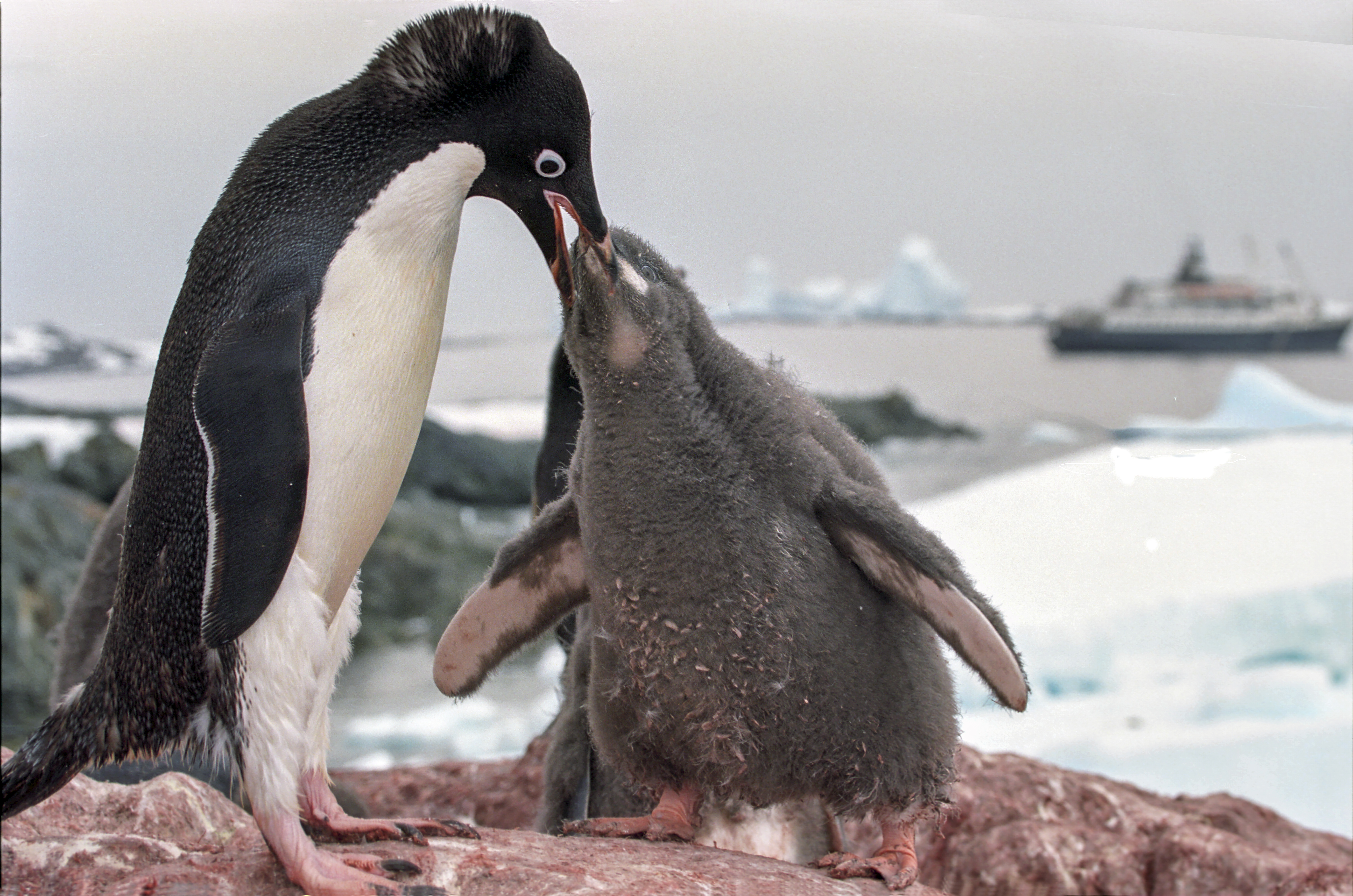 Antarctica, adelie penguins, feeding